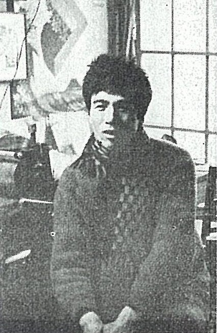 Masuo Ikeda (1934-1997), Japanese painter, woodblock artist, sculptor, film director